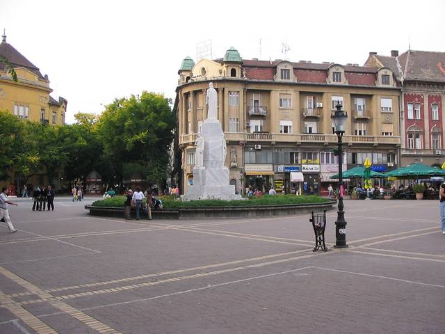 Subotica